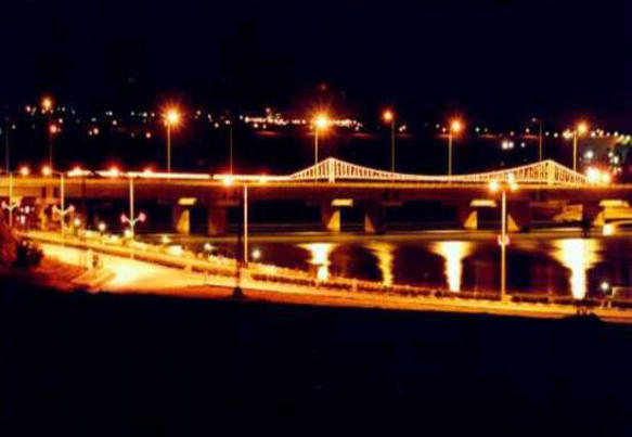 Adana at night